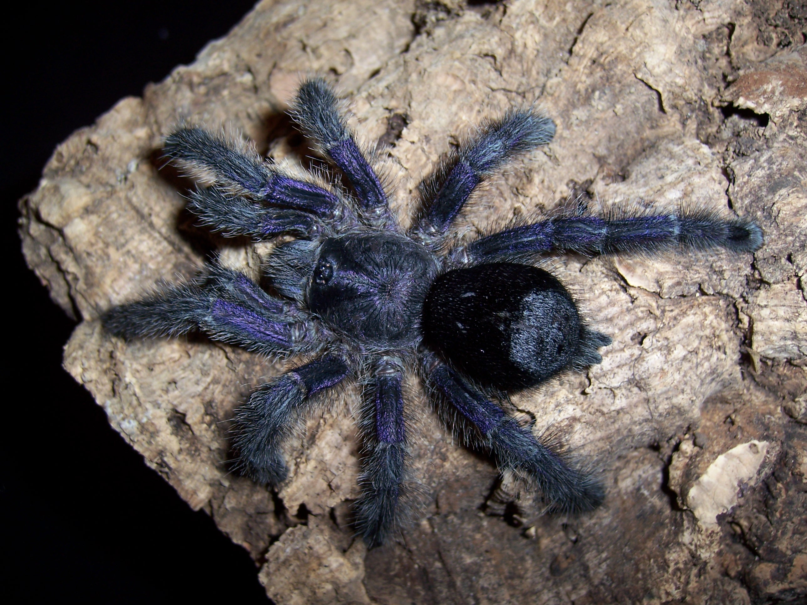 Claimed to be "female of avicularia purpurea". Doubtful; possibly Avicularia juruensis.